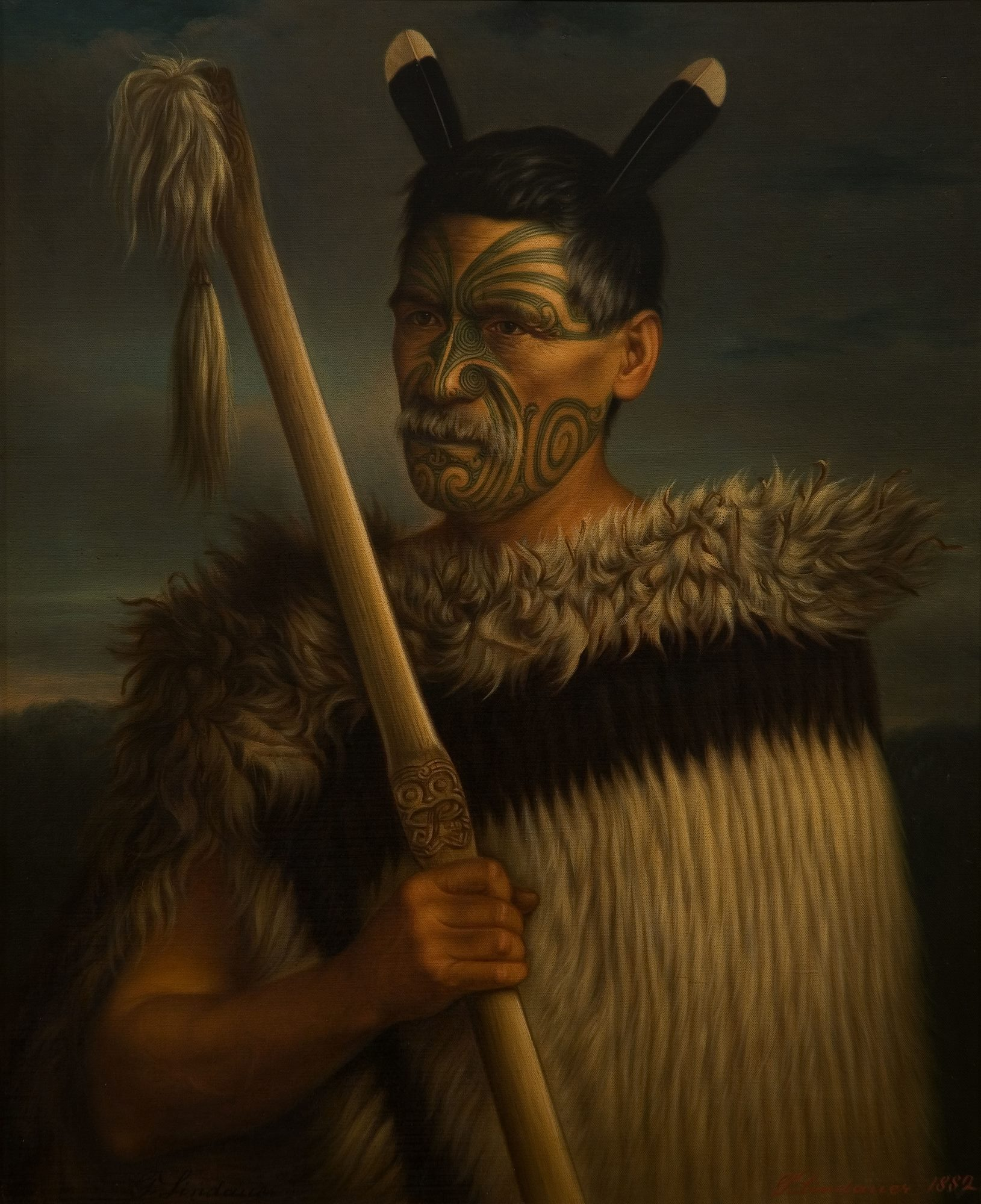 A portrait of Rewi Manga Maniapoto, by Gottfried Lindauer.